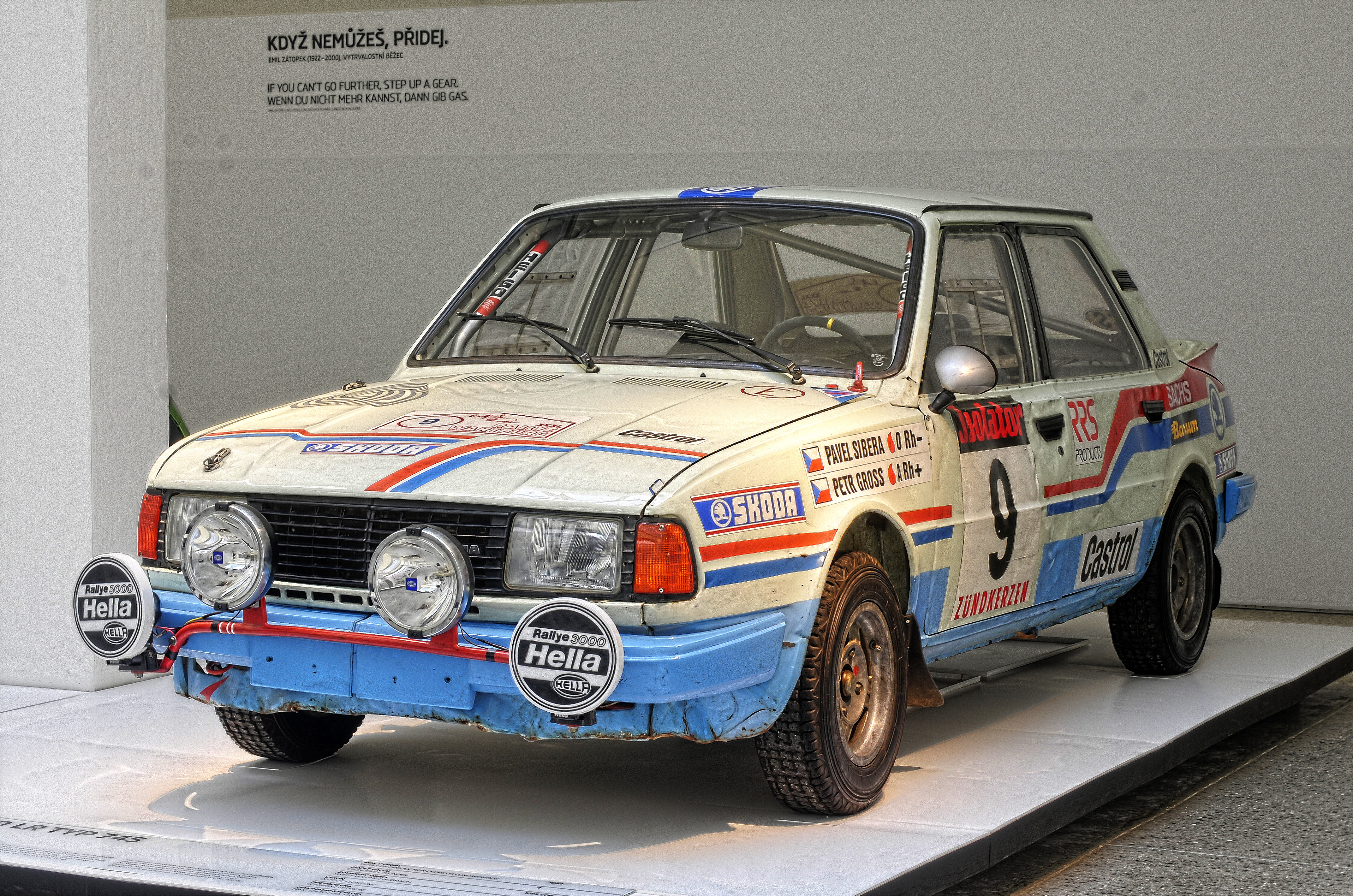 Škoda 136 LR (1984)